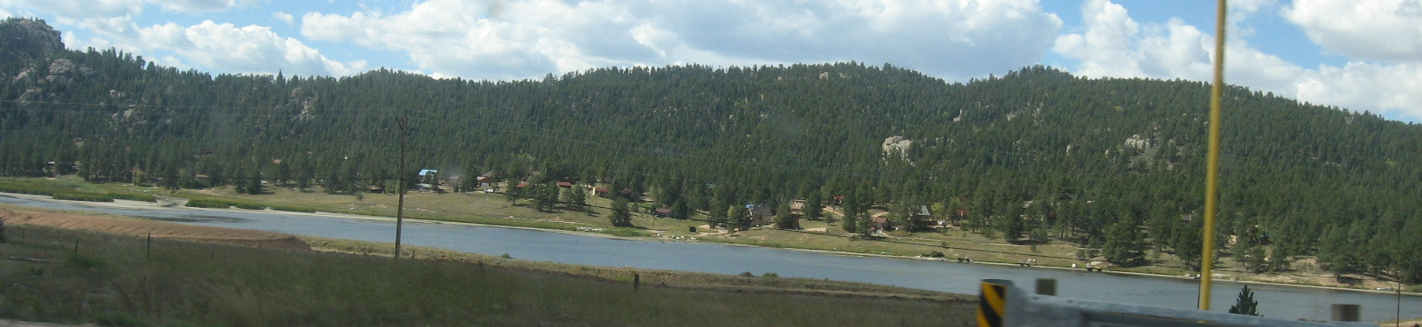 Lake George, a lake in the Town of Lake George, Colorado, as seen from the north along US 24. Image was cropped with jpegtran; no other processing.